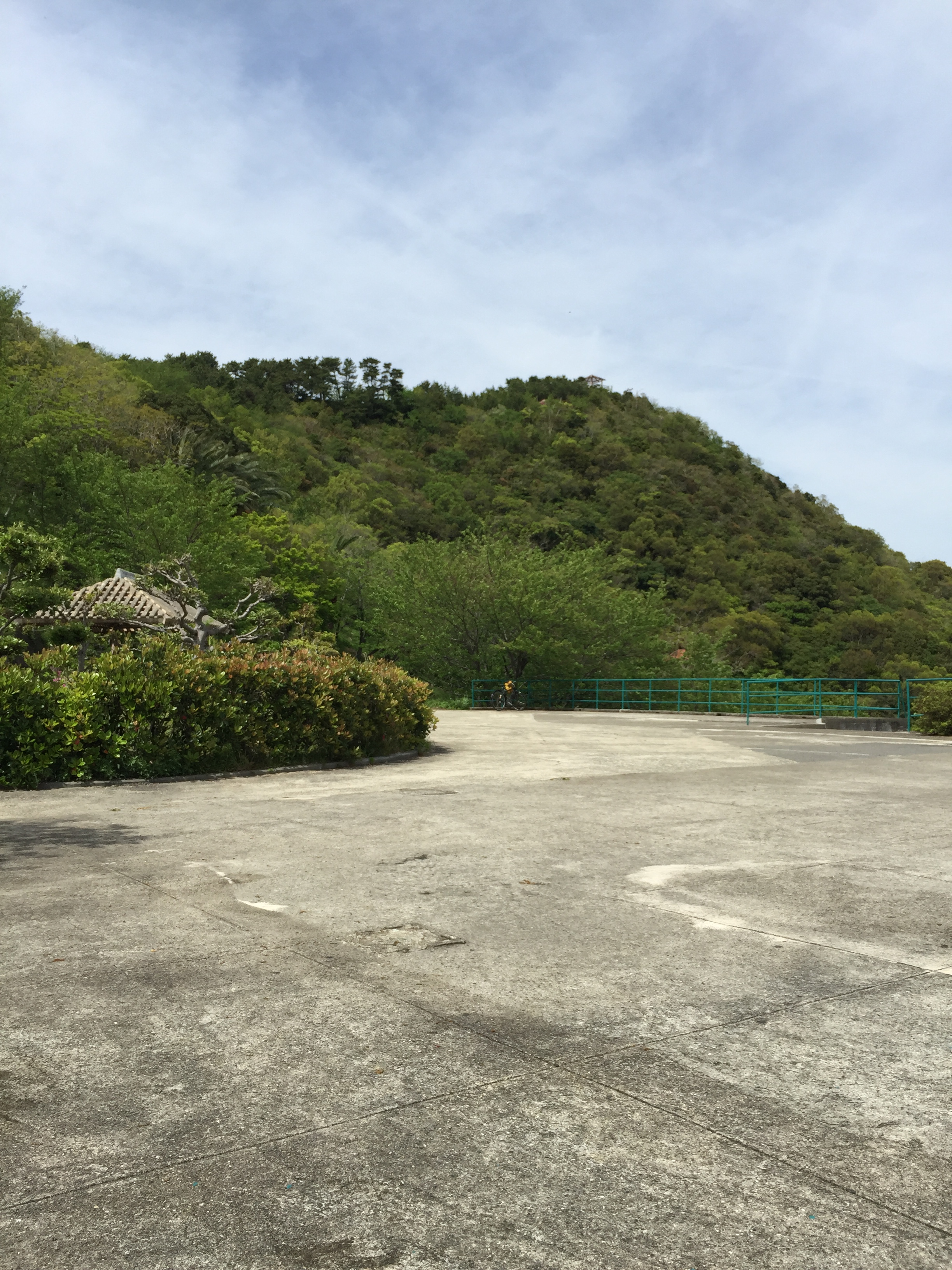 Mt.Takazushi(yama) in the Site of Shin-Wakaura Station Site in Wakaura,Wakayama city,Japan.